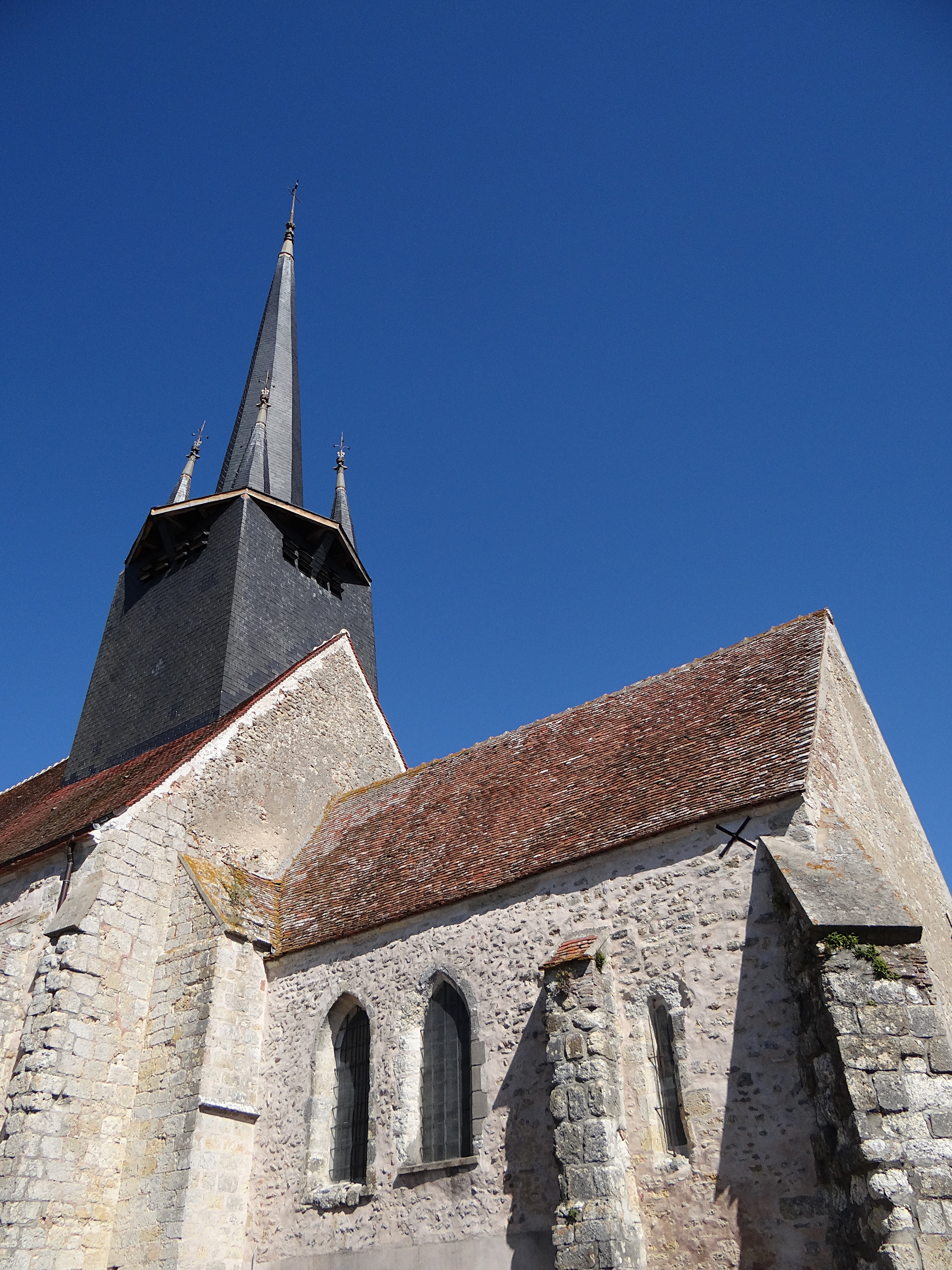 Church of Saint Lawrence, Auvilliers-en-Gâtinais, Loiret, France